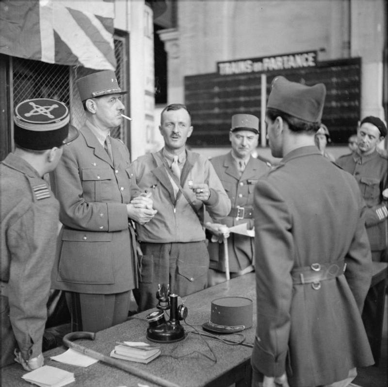 The Campaign in North-west Europe 1944-45 General De Gaulle with General Leclerc and other French officers at Montparnasse railway station in Paris, 25 August 1944.